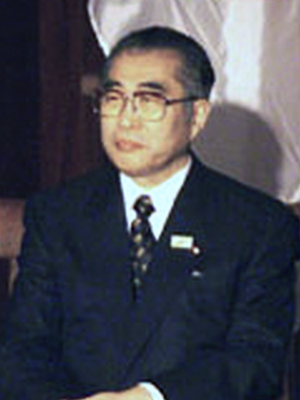 On the first day of the 1999 G8 Summit in Cologne, Germany, the President meets with Prime Minister Keizo Obuchi of Japan.